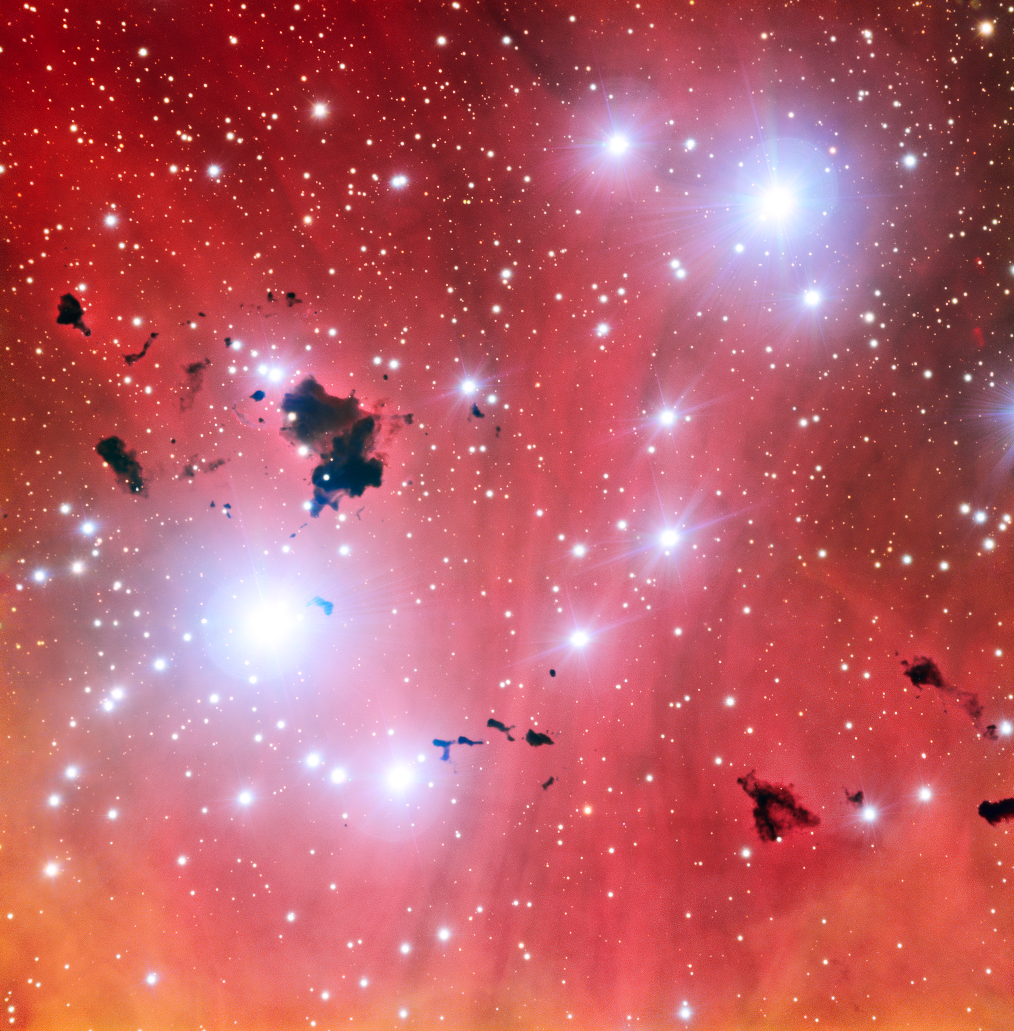 This intriguing new view of a spectacular stellar nursery IC 2944 is being released to celebrate a milestone: 15 years of ESO’s Very Large Telescope. This image also shows a group of thick clouds of dust known as the Thackeray globules silhouetted against the pale pink glowing gas of the nebula. These globules are under fierce bombardment from the ultraviolet radiation from nearby hot young stars. They are both being eroded away and also fragmenting, rather like lumps of butter dropped onto a hot frying pan. It is likely that Thackeray’s globules will be destroyed before they can collapse and form new stars.